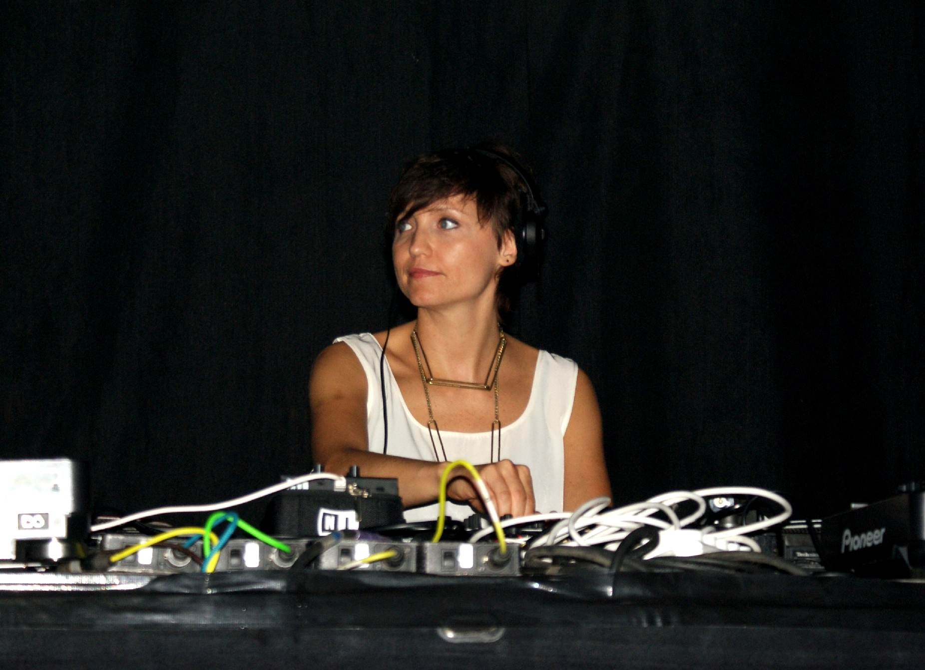 Audioriver Festival (6-8.08.2010, Płock, Poland) Magda (Circus Tent)